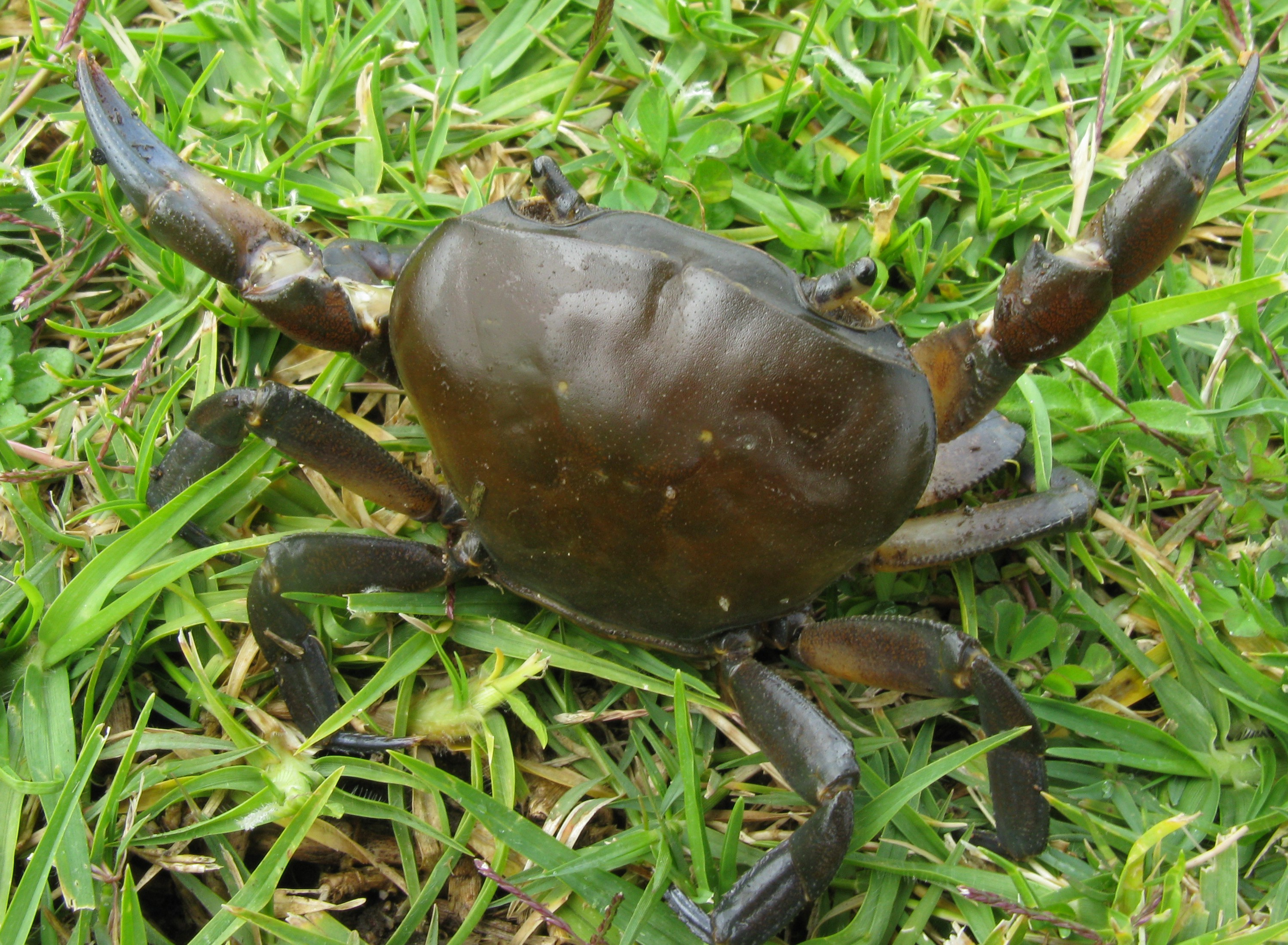 Cape River Crab, Potamonautes perlatus, seen on a golf course during a wet spell, probably migrating between dams. Photographed near Somerset West in South Africa